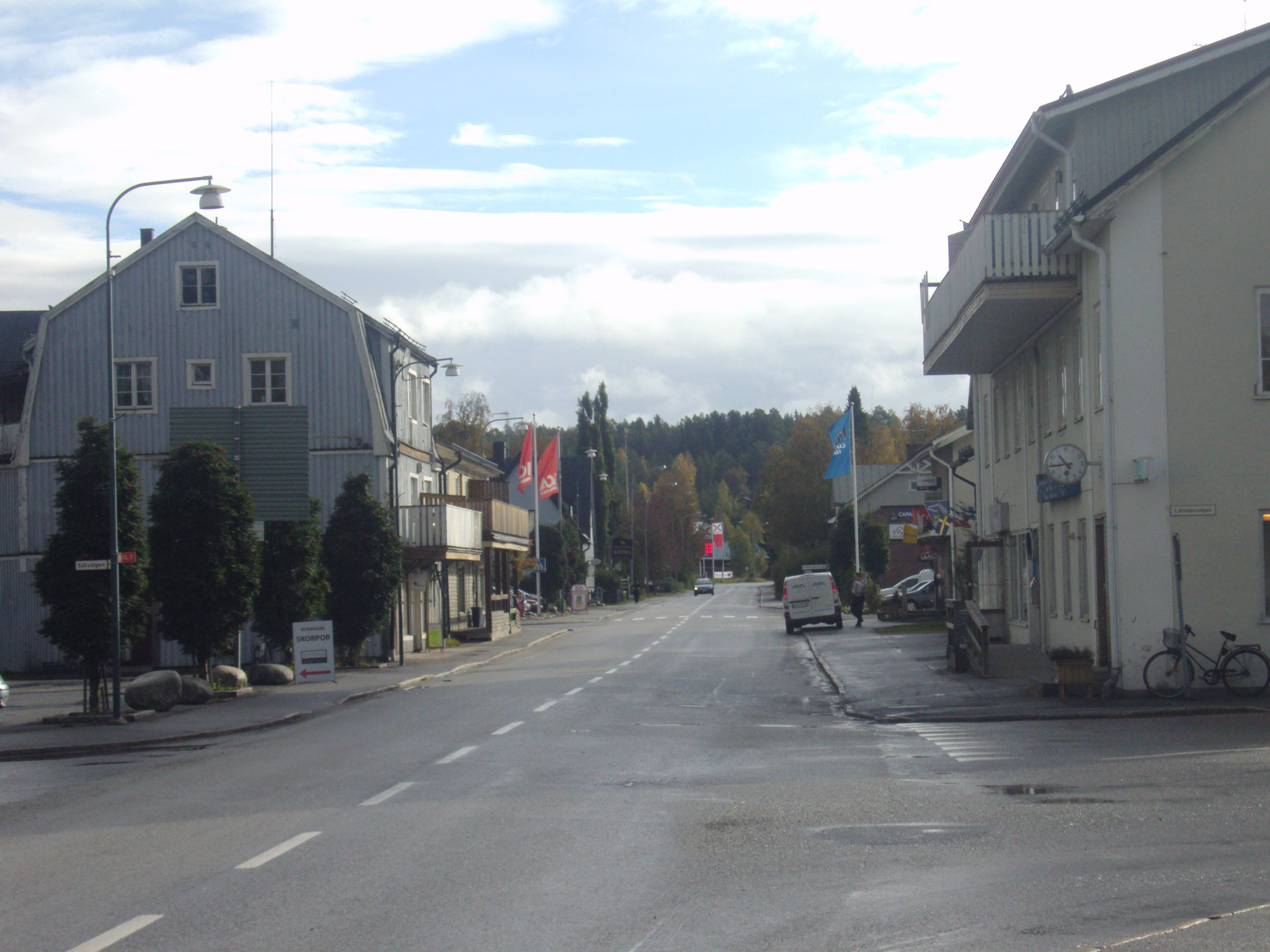 Köpmangatan/Riksväg 90 Junsele